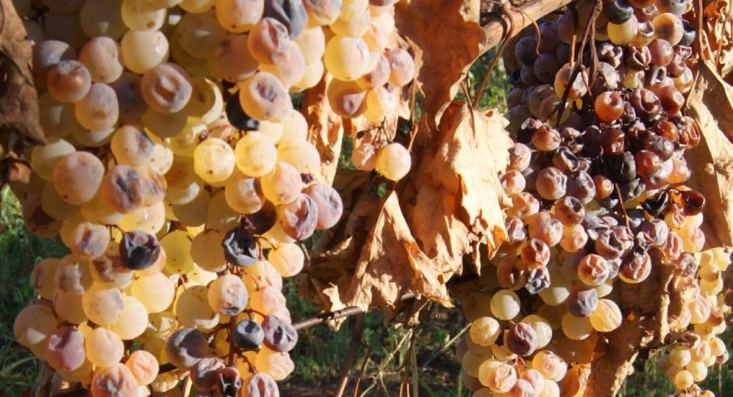 It is a photo of a Malvasia grape, standing on the plant as long as possible, to produce the famous Cannellino Wine. I took the picture in a Frascati vineyard in November 2012.